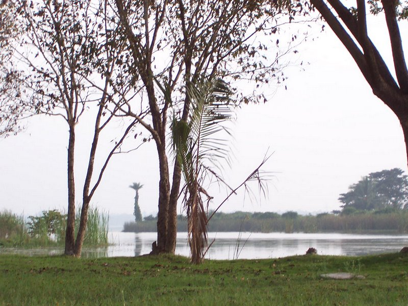 Author : Ramesh Babu, It's my own work. This image can be fairly used and can be distributed without any modificiation to original image.